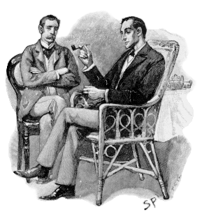 Sherlock Holmes (r) and Dr. John H. Watson. Illustration by Sidney Paget from the Sherlock Holmes story The Greek Interpreter, which appeared in The Strand Magazine in September, 1893. Original caption was "HOLMES PULLED OUT HIS WATCH."